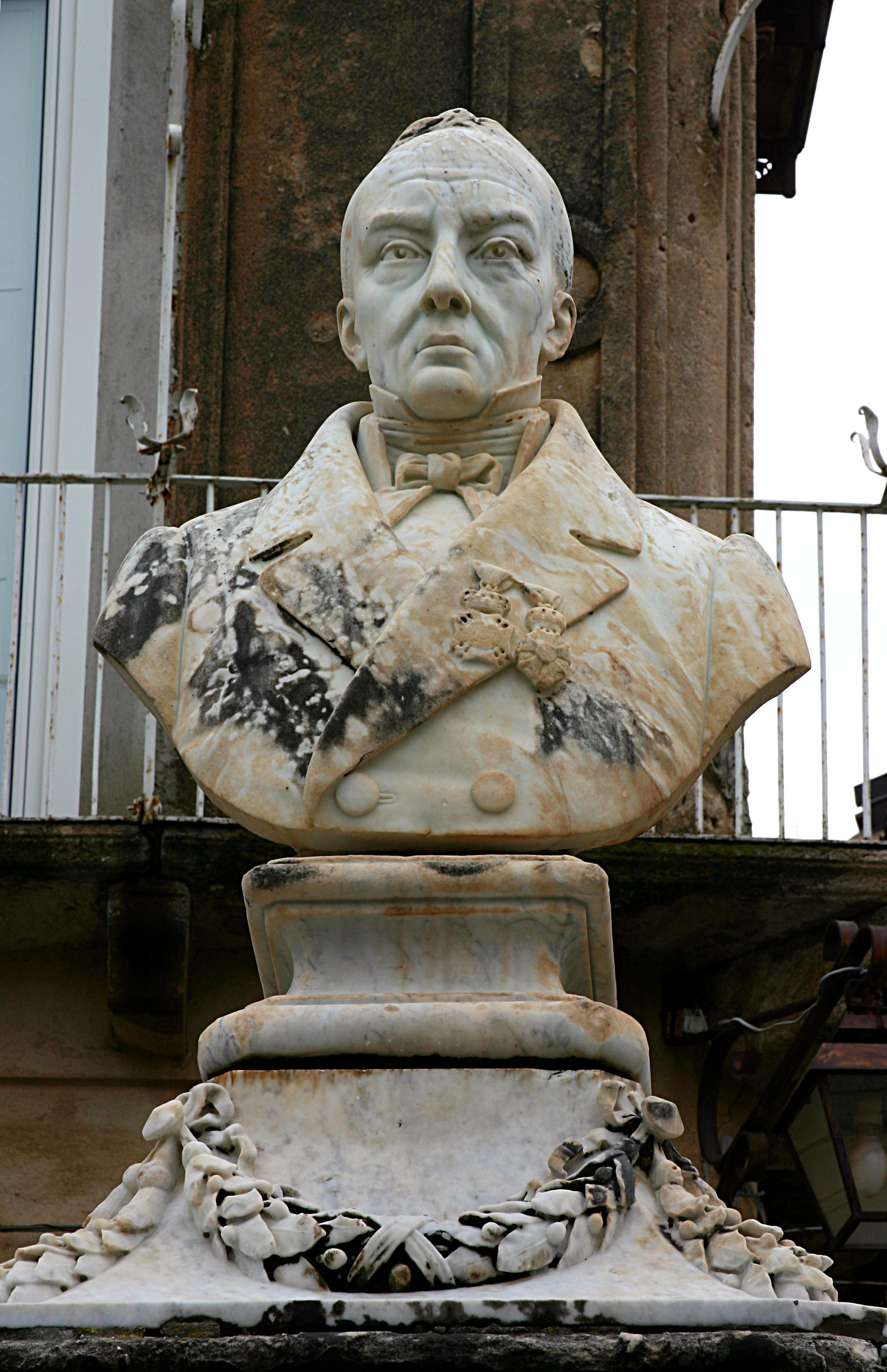 Memorial for Pasquale Galluppi, Tropea, Calabria, Italy.